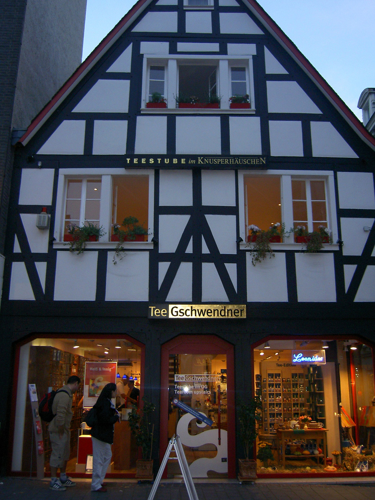 TeeGschwendner tea shop in Bonn, Germany.